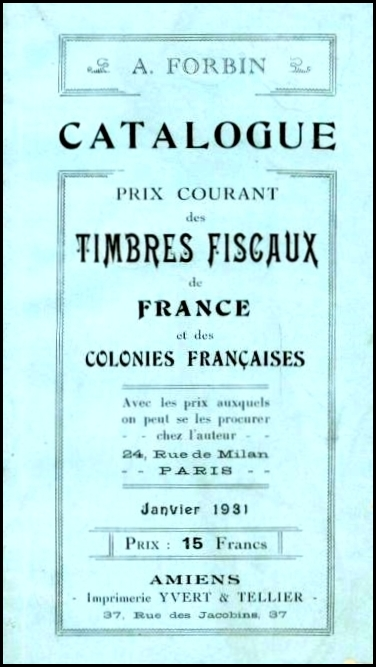 1931 book cover: Alfred Forbin. Catalogue des Timbres Fiscaux de France et Colonies. 2nd edition, 1931. Published by Yvert & Tellier.